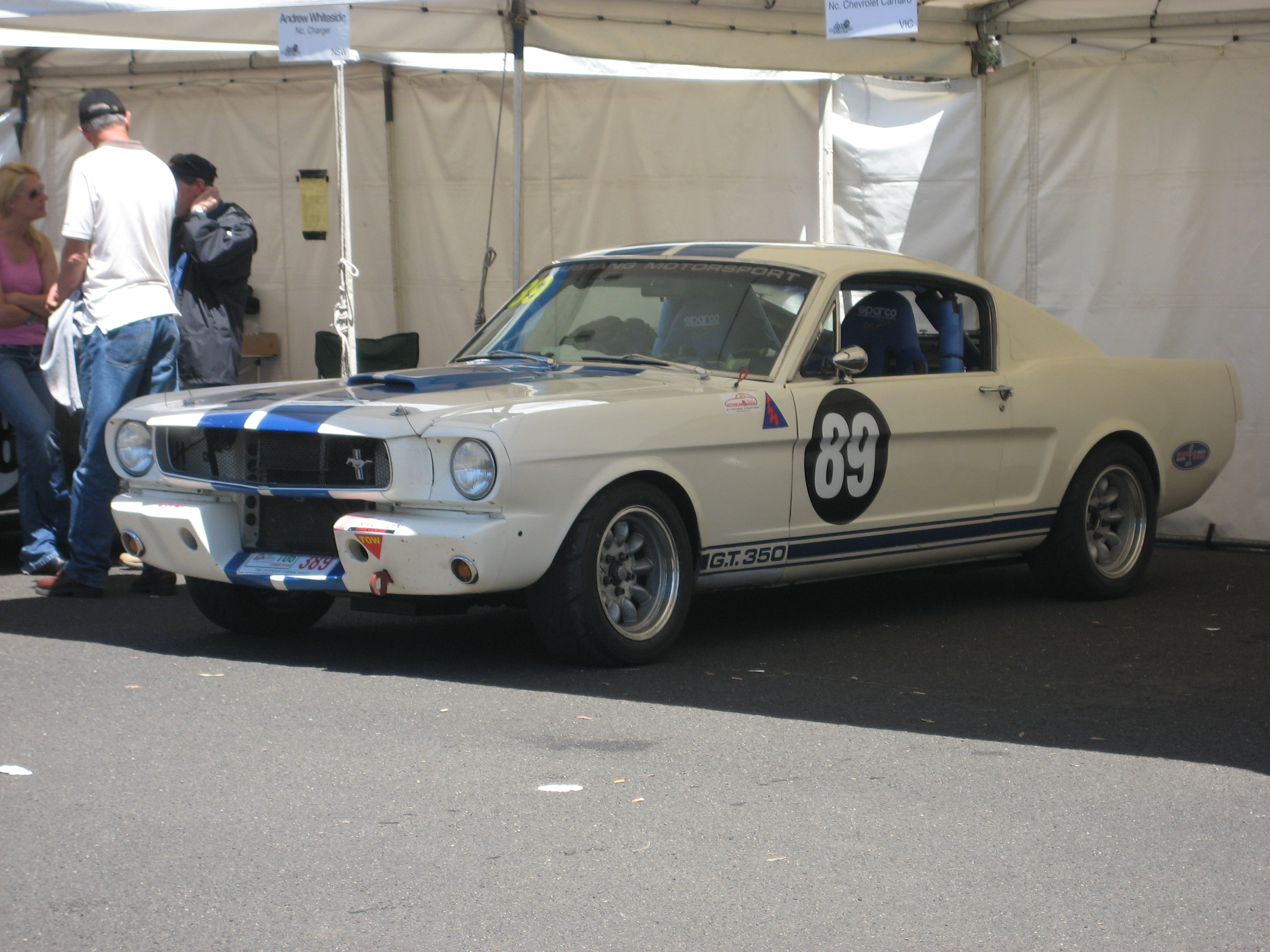 Built by Carroll Shelby for racing Only available in Wimbledon White with Guardsman Blue stripes Engine; 306 bhp K Code 289 V8 516 Street Versions made & another 47 Competion Models (350R)